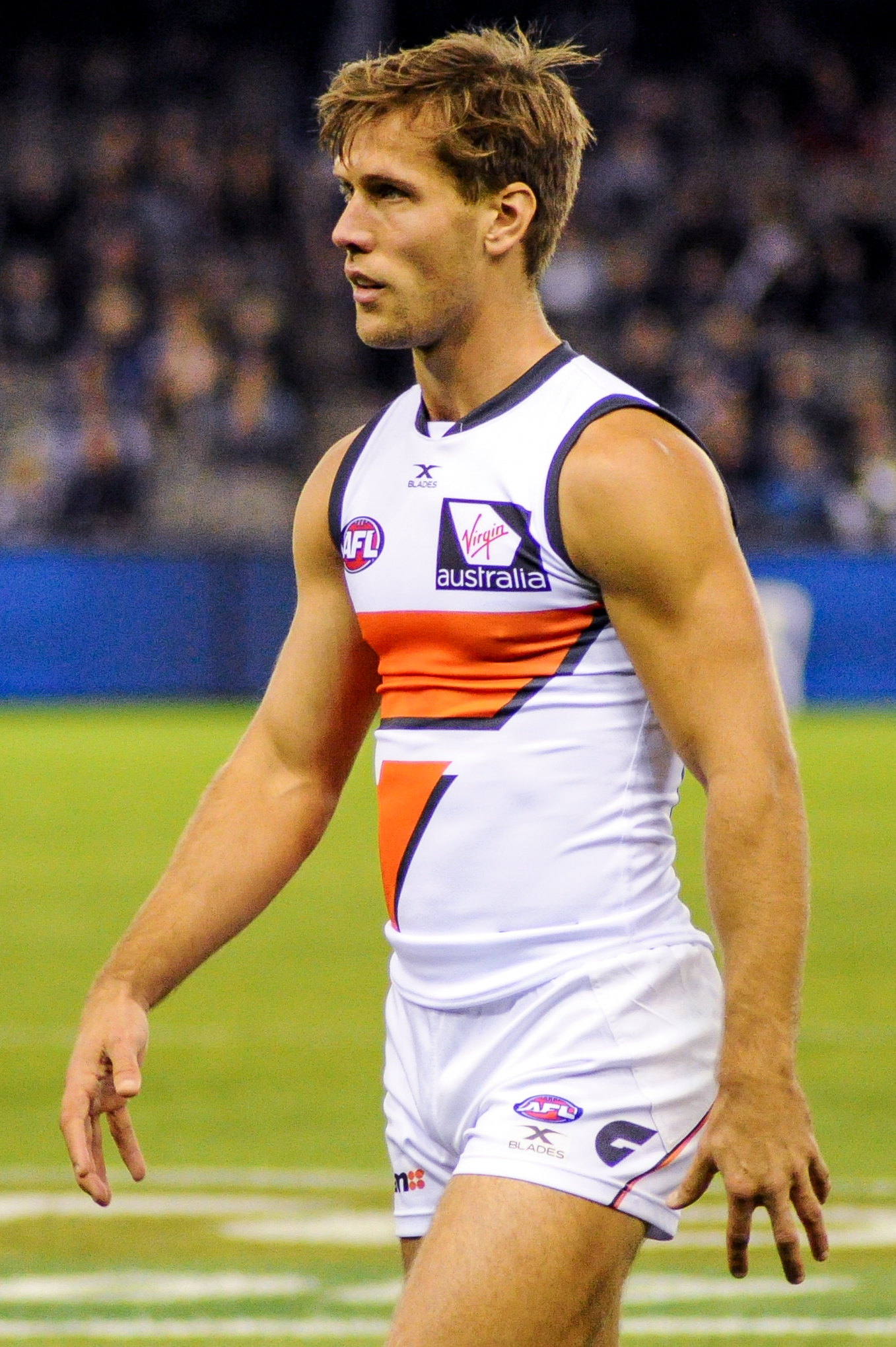 Matt de Boer during the AFL round twelve match between Carlton and Greater Western Sydney on 11 June 2017 at Etihad Stadium in Melbourne, Victoria.